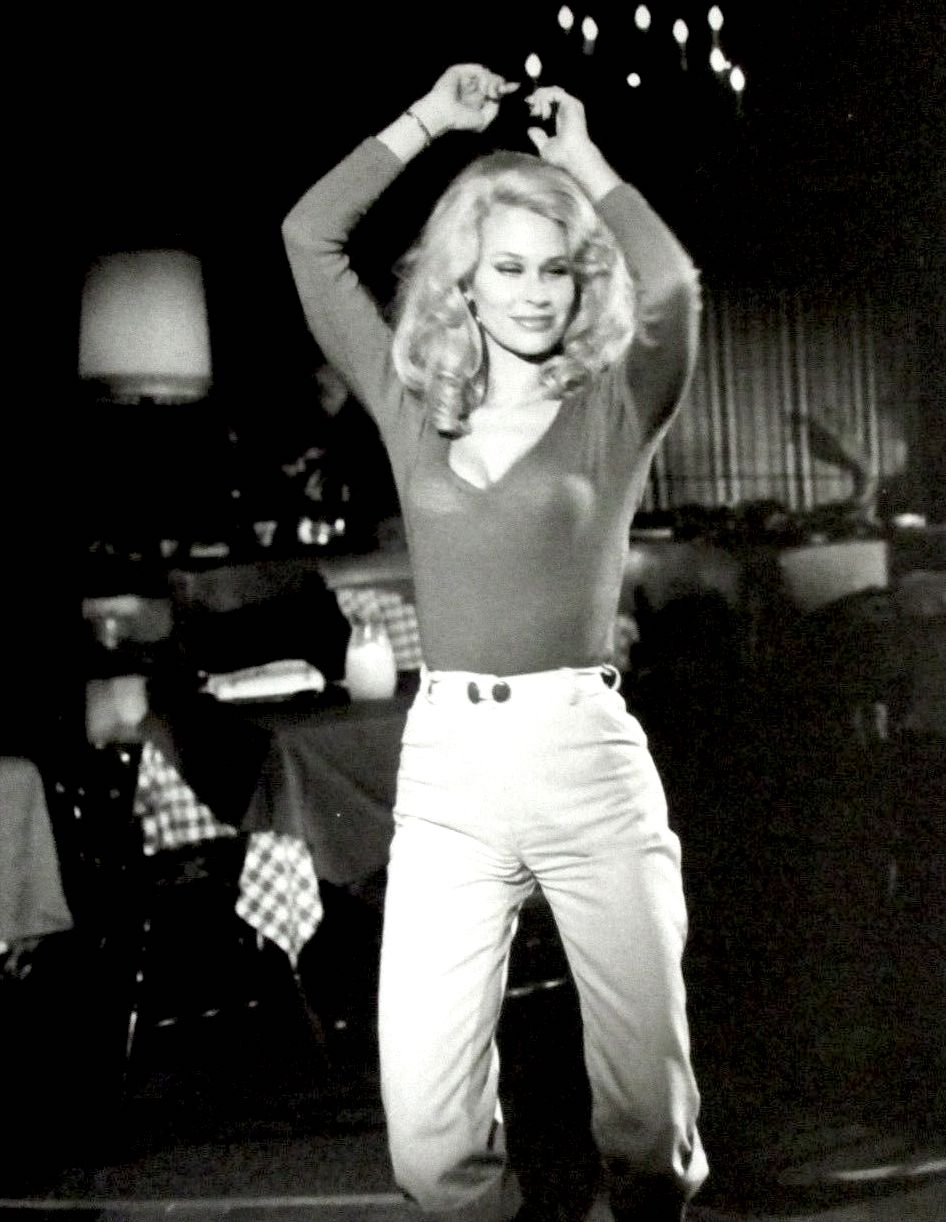 Karen Black in a press photo for The Strange Possession of Mrs. Oliver